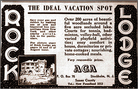 This is a newspaper ad from the 1940s promoting the Rock Lodge Club nudist camp